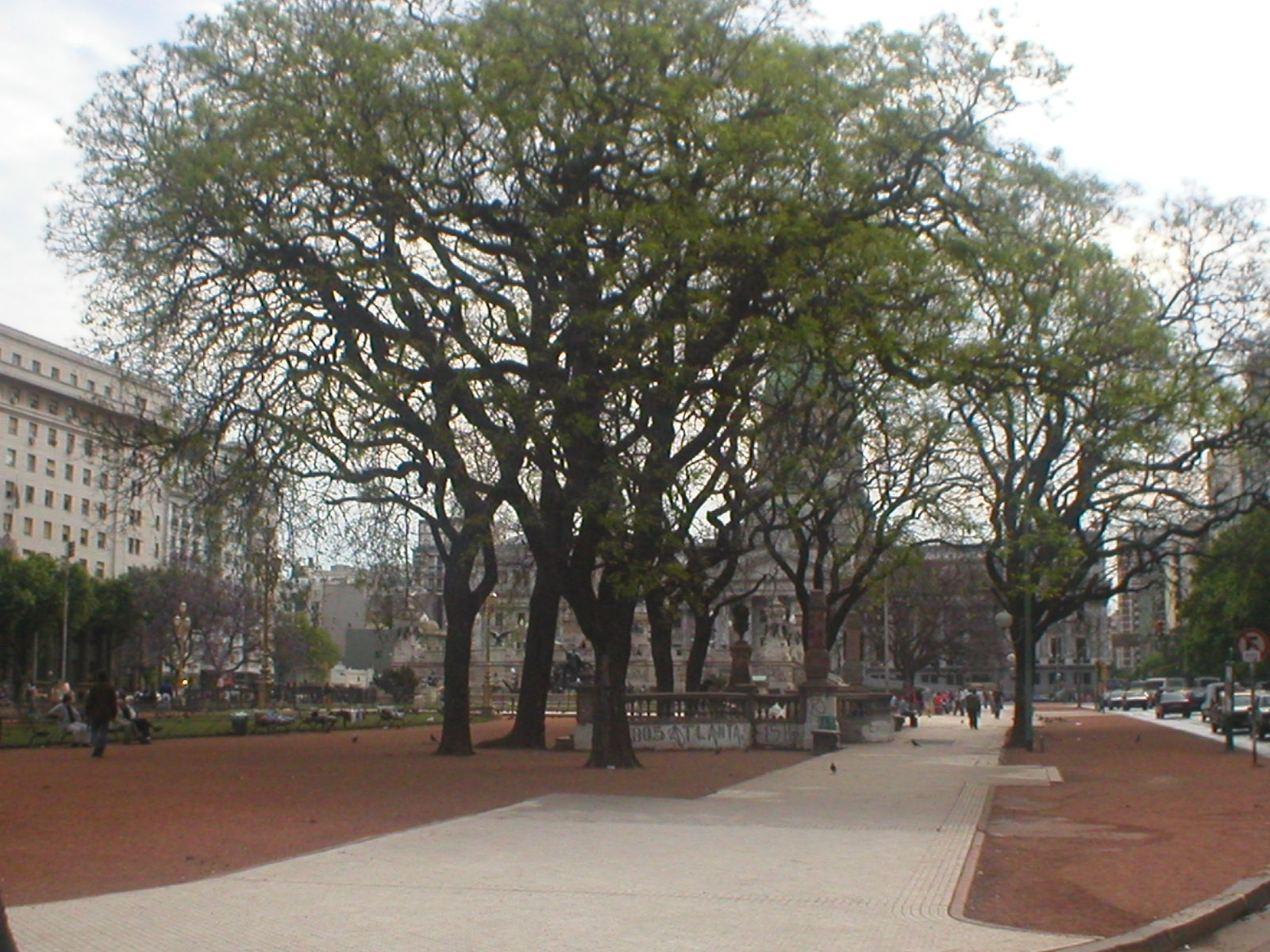 I took this while living in Buenos aires. It's open to all. Svenska84 23:04, 18 May 2005 (UTC)